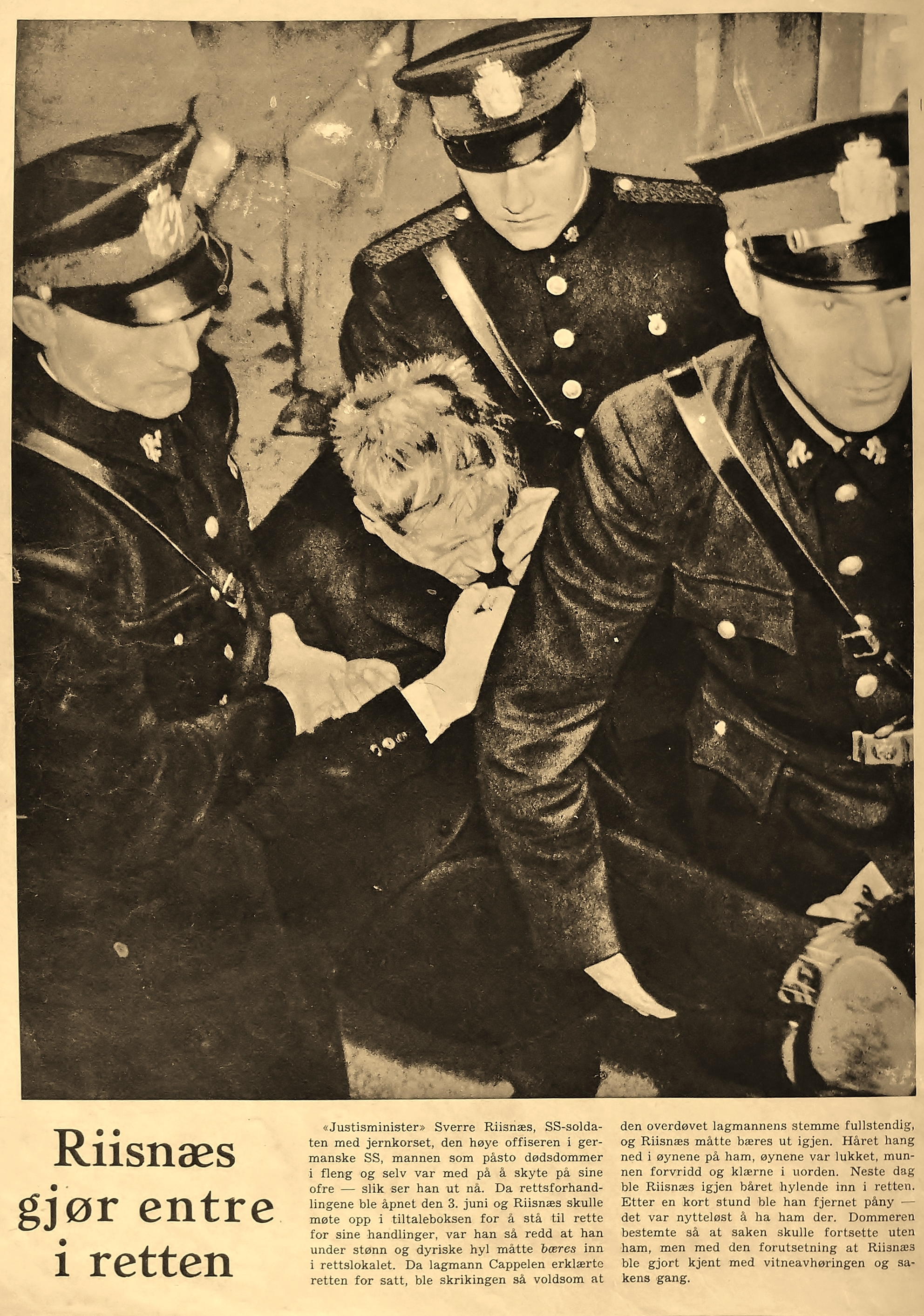 ENGLISH TRANSLATION OF NORWEGIAN CAPTION: Minister of Justice, Sverre Parelius Riisnæs, the SS-soldier with the Iron Cross, the high-ranking officer of the Germanic SS, the man who handed down death sentences and even took part in the executions of his victims- this is what he looks like now. The court case against him started on 3 June [1947]. When Riisnæs was to be placed in the dock to answer for his acts, he was so scared that he amidst bestial moaning and screams had to be carried out of the court room. When judge Cappelen opened the court proceedings the judge’s voice was completely drowned by Riisnæs’s loud and intense screaming so the defendant was carried out. He was in a dishevelled state; his hair was hanging down covering his closed eyes, his mouth twisted. The next day the moaning and screaming Mr. Riisnæs was carried into the court room. After a short while, he once again had to be removed- it was pointless to have him there. On the condition that Mr. Riisnæs was informed about the examination of witnesses and the course of the court proceedings the judge ruled that the case could continue without the defendant being present.